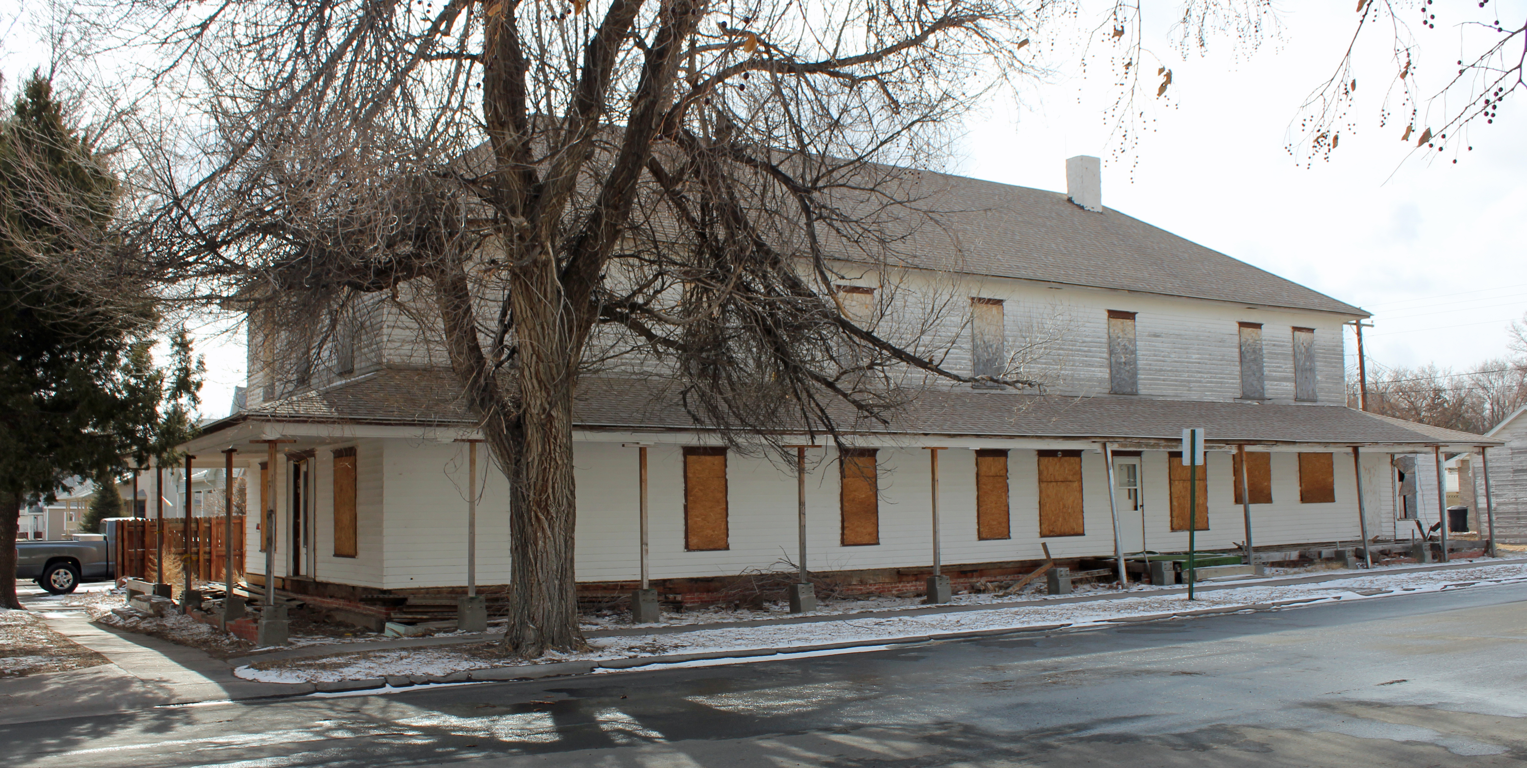 The Lett Hotel, located at 204 South Ash Street in Yuma, Colorado. The property is listed on the National Register of Historic Places.